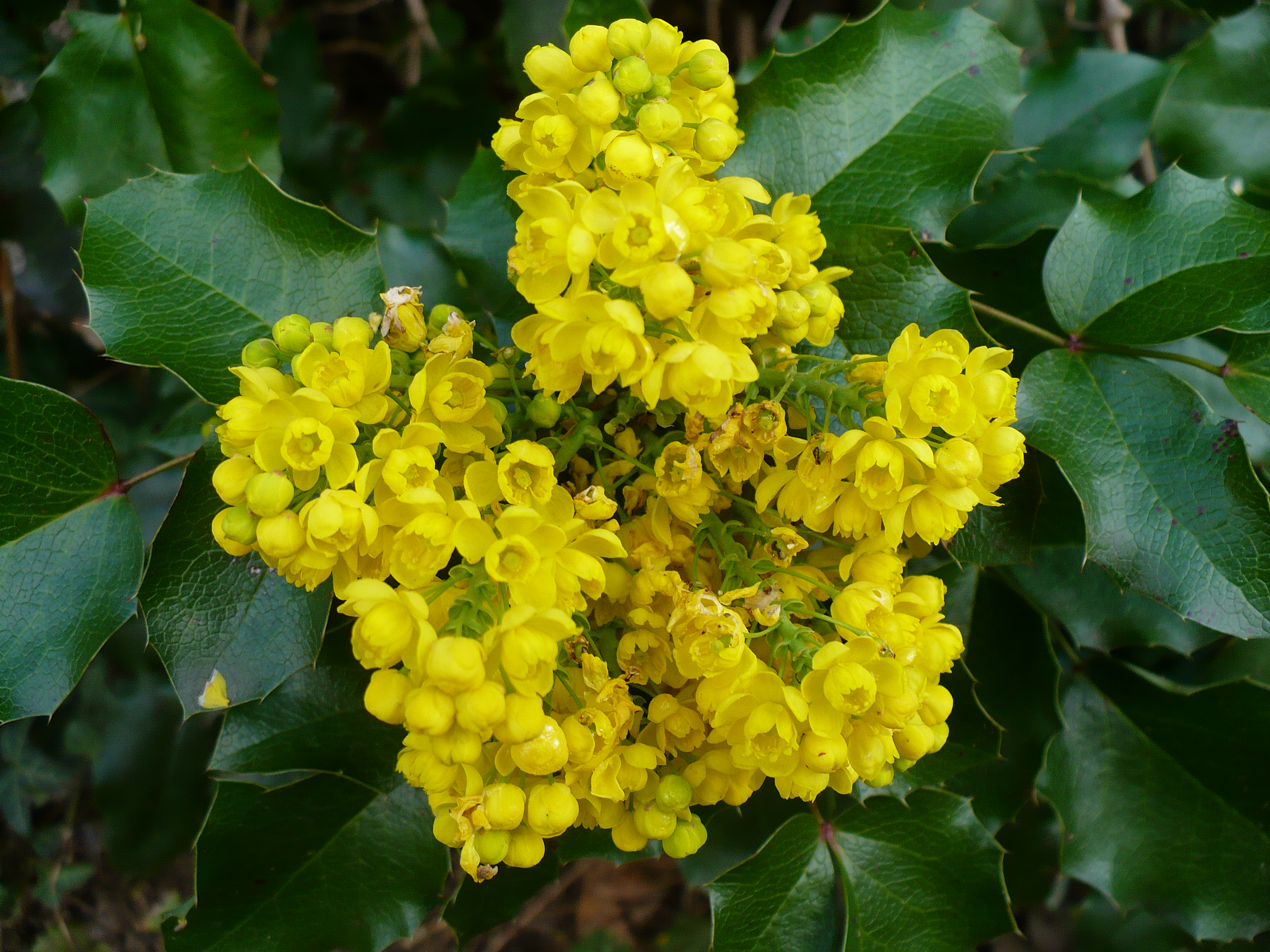 Mahonia aquifolium flowers and leaves (photo taken in Budapest)